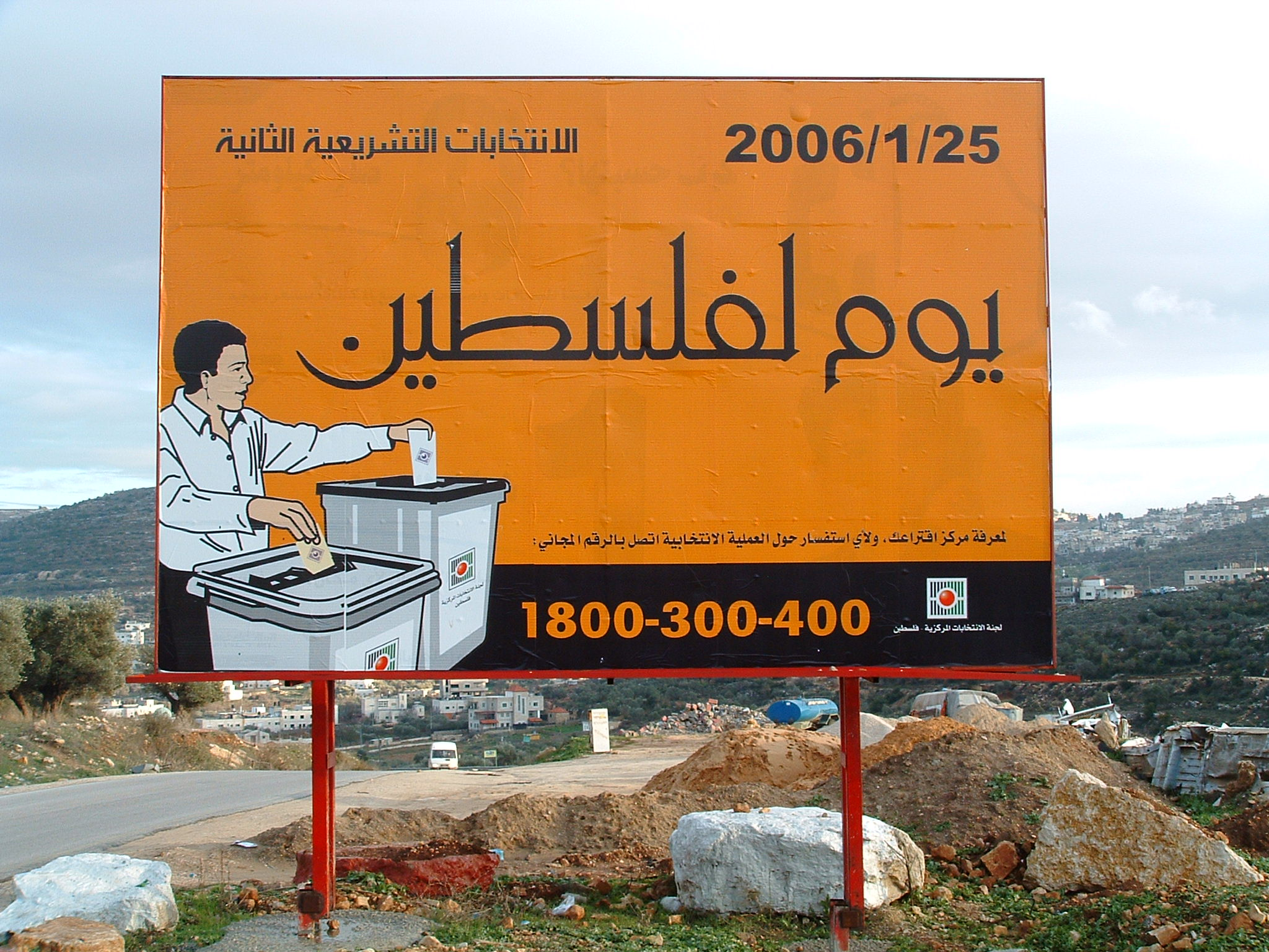 Impressions of the life in the oPt